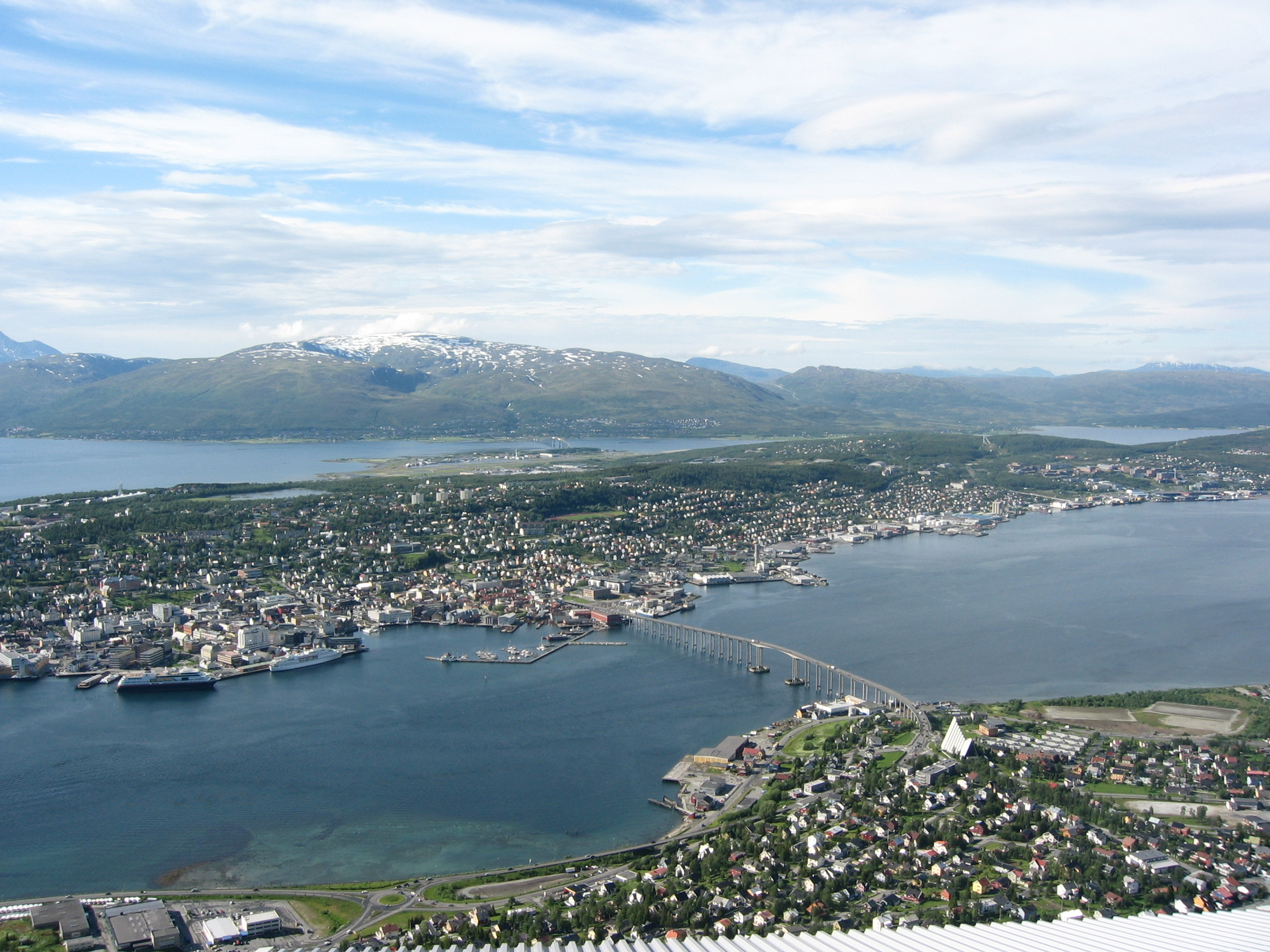 View of Tromsø from a mountain Tourist Point.